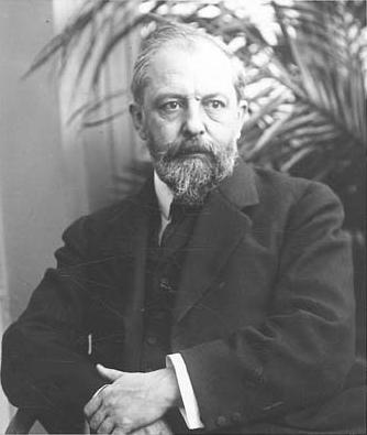 Théodore Steeg (1868-1950), French colonial administrator (Resident-general of Morocco) and stateman